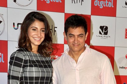 Indian actors Aamir Khan and Anushka Sharma launch PK mobile game